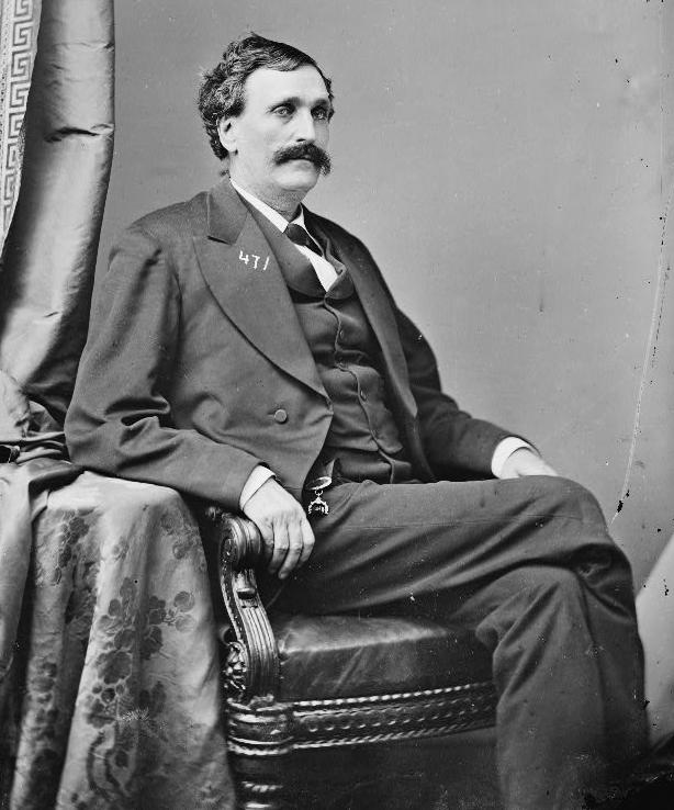 Kentucky Congressman William Brown Read